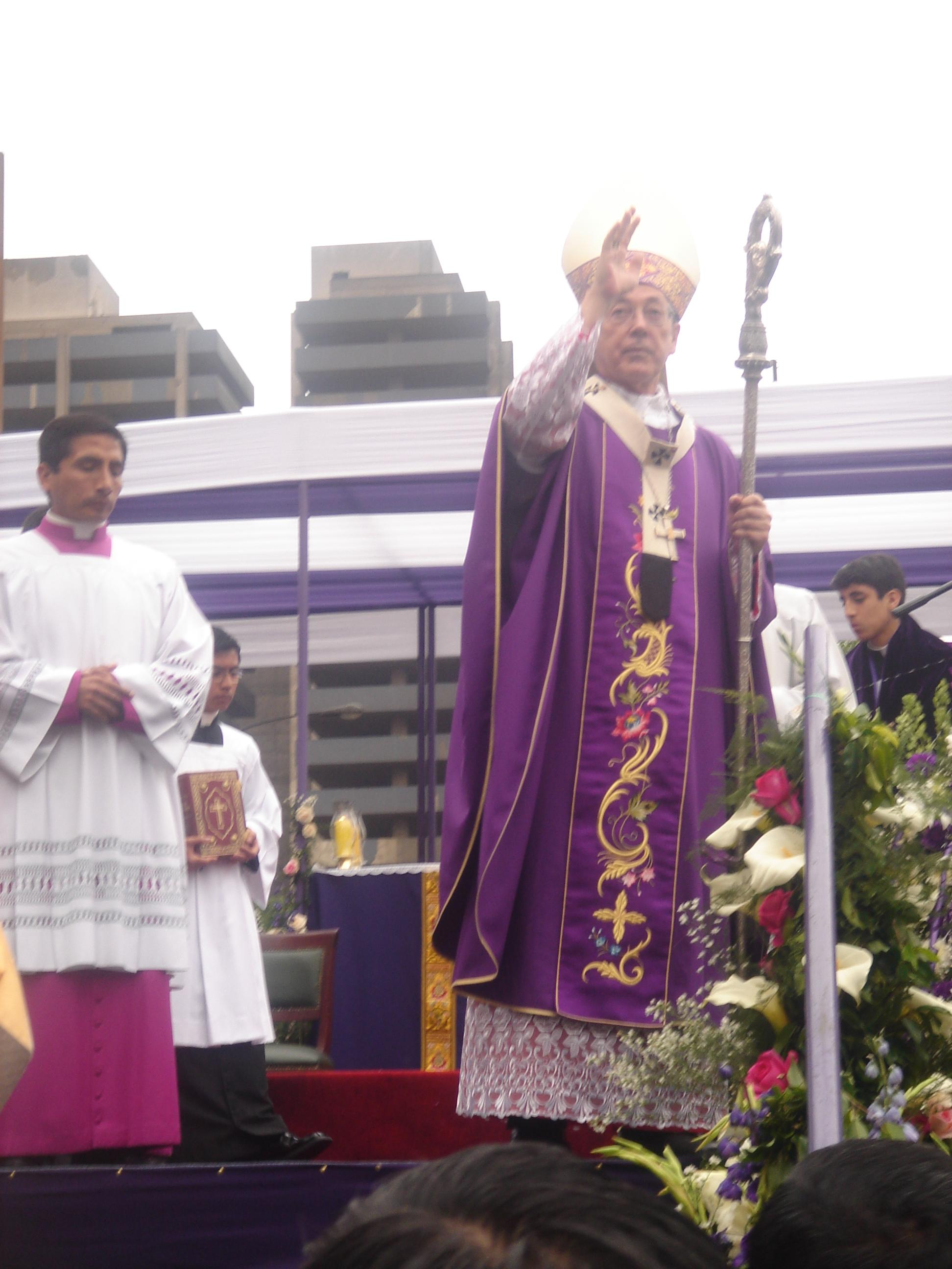 Cardinal Juan Luis Cipriani, Archbishop of Lima. Señor de los Milagros Procession. Lima, 2006.